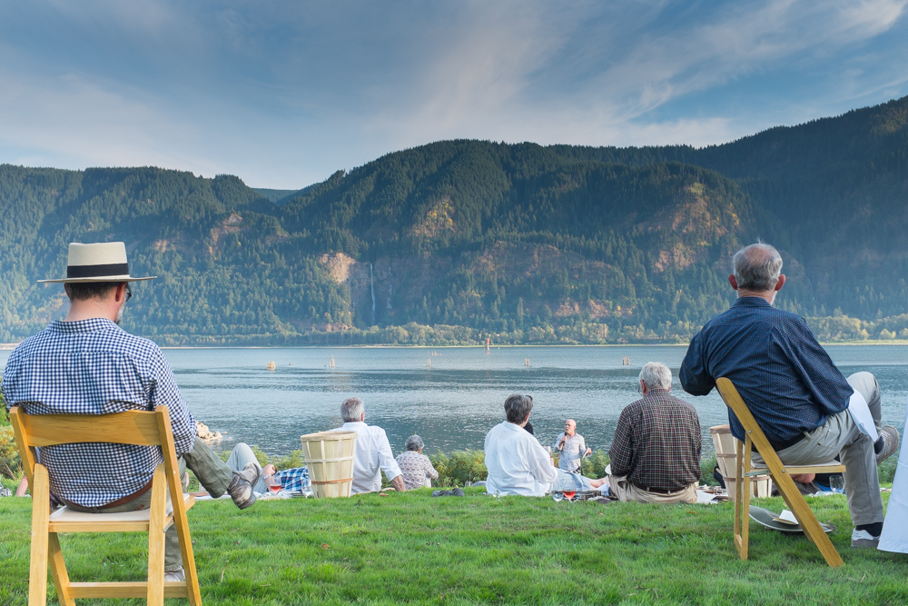 Picnic at the Shire, sponsored by the University of Oregon John Yeon Center for Architecture and the Landscape.